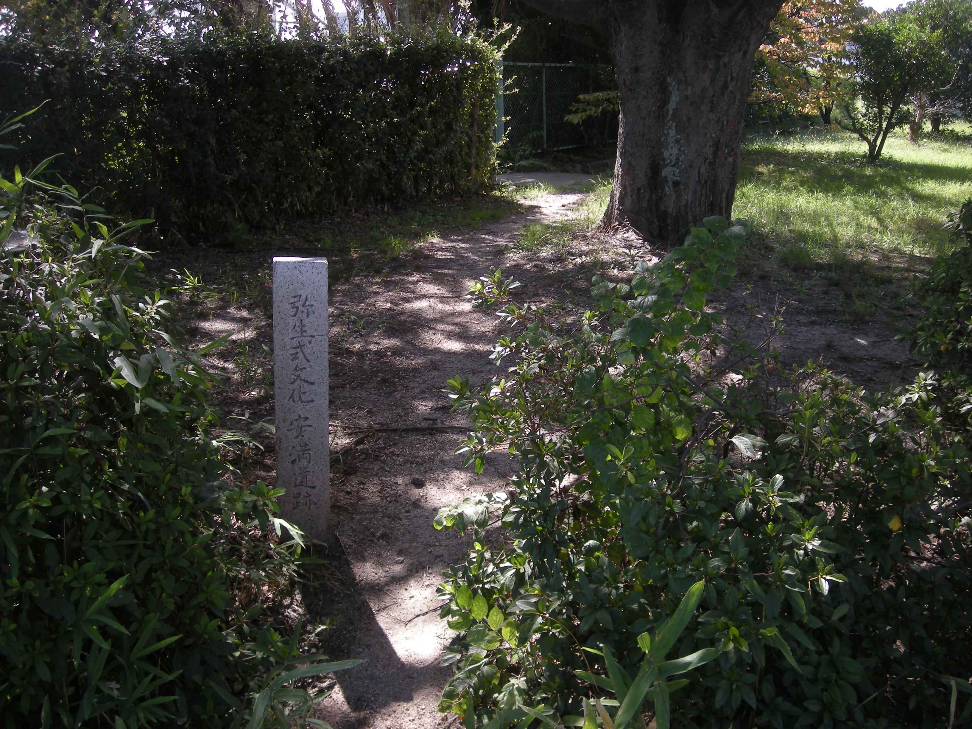 Archaeological site of Ama, Takatsuki city